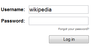 A log in window containing a form for user name and